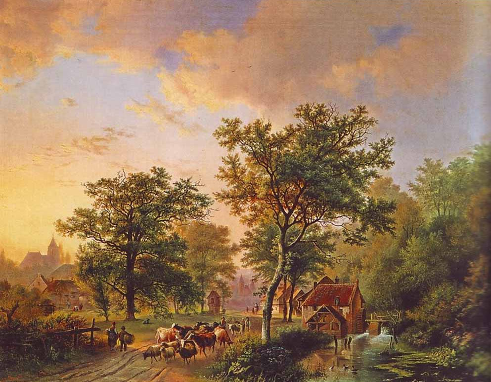 Mikhail Spiridonovich Erassi